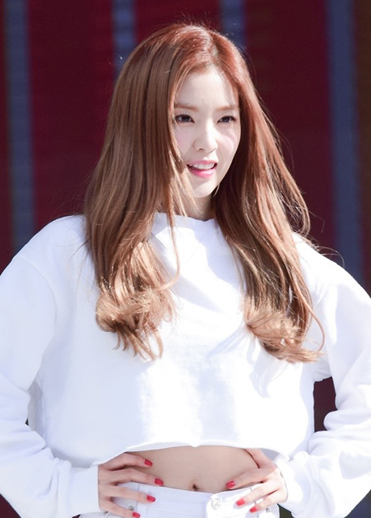 Irene Bae at DMC Music Festival on September 12, 2015.